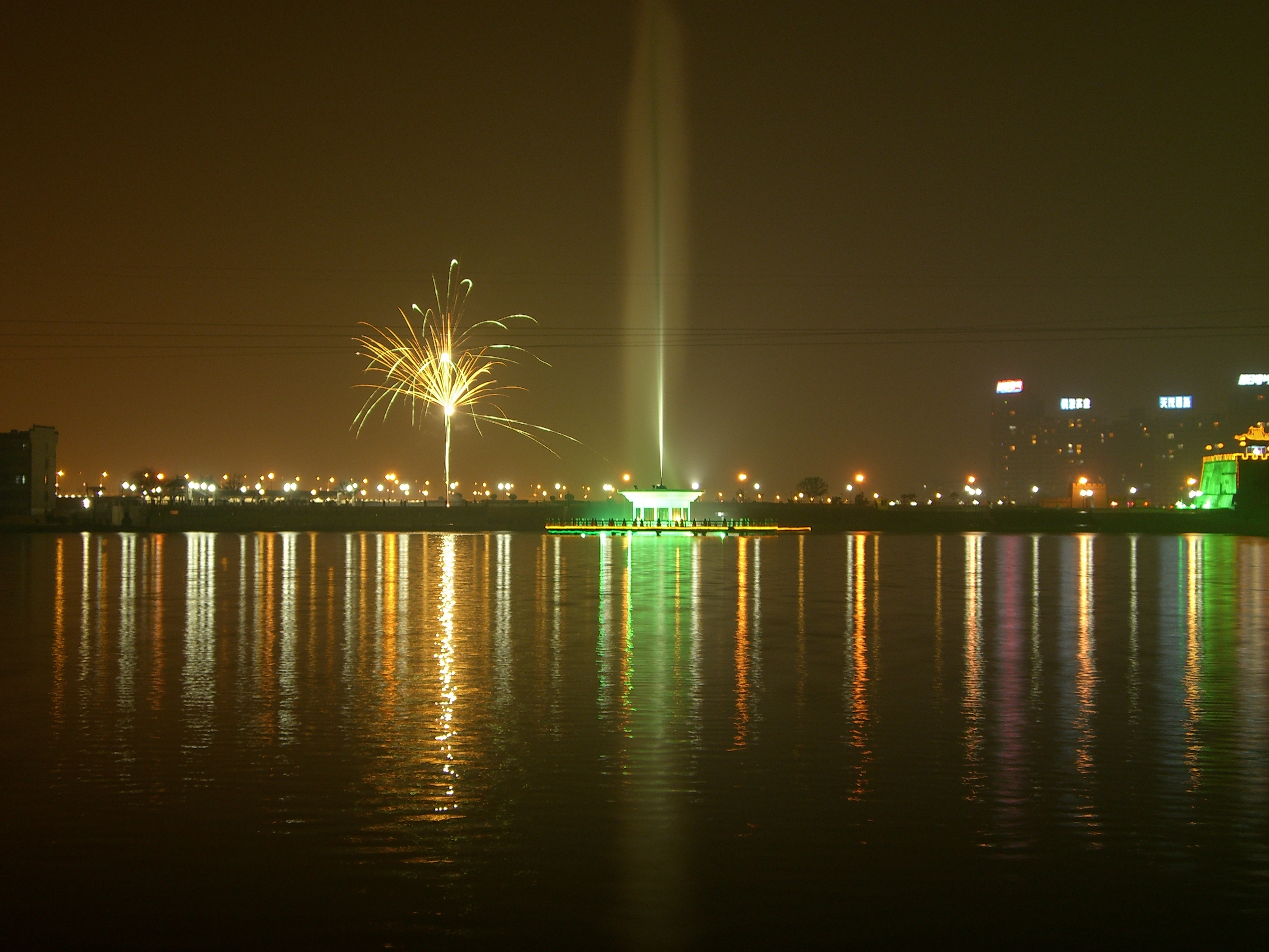 Festivities in Xiangfan during 2007 Chinese New Year. Google Map Location